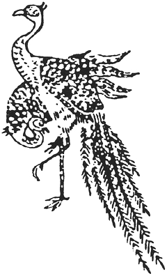 Luan (鸞, a legendary phoenix-like bird) from the Wakan Sansai Zue (和漢三才図会)